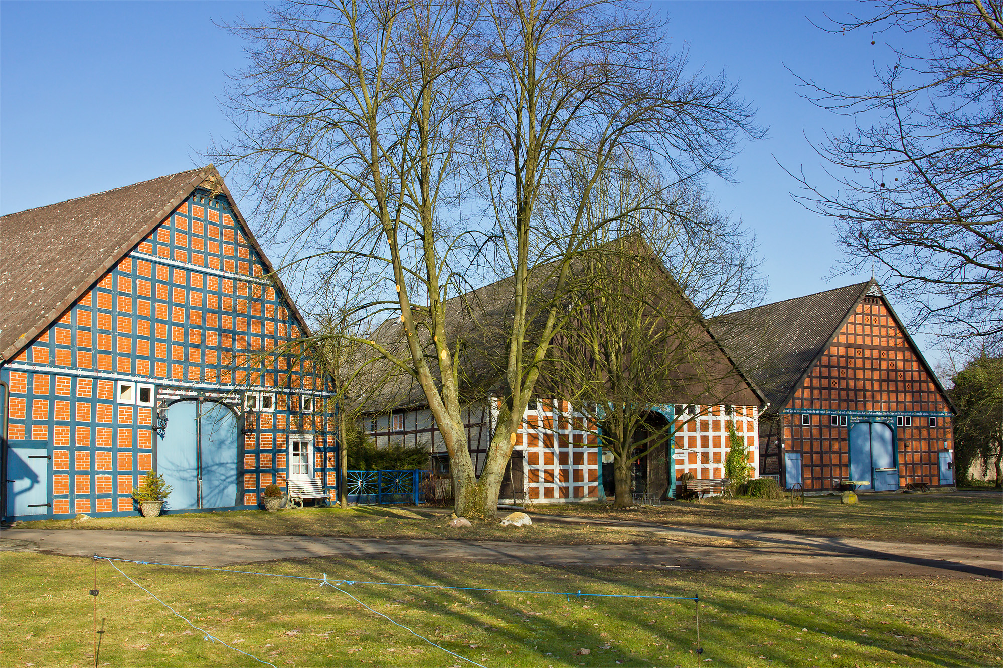 Part of the village Güstritz (district Lüchow-Dannenberg, northern Germany) with typical local form of settlement, called "rundling".